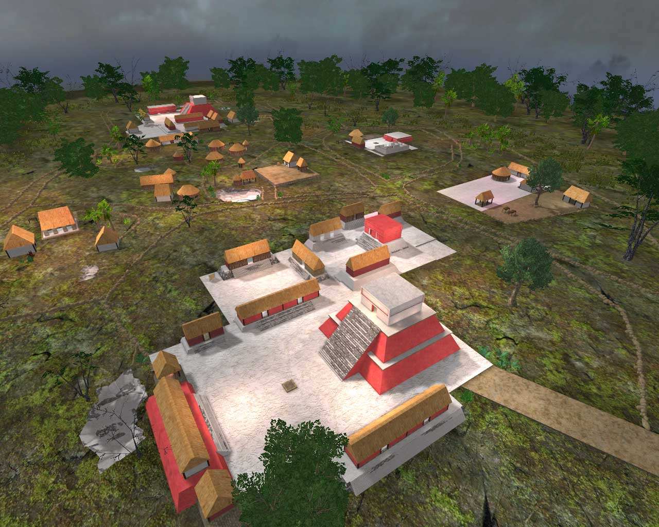 Digital reconstruction of the "Pich" quadrangle at the ancient Maya site of Chunchucmil, Yucatán, Mexico using archeological survey maps. Note the central platform and temple-pyramid of the main quadrangle; its associated sacbe (extending from the bottom-right); the stone walls (or "albarradas") enclosing each architectural group; and the pathways (or "callejuelas") for foot traffic between groups. These features are all described in the Chunchucmil Wikipedia article.